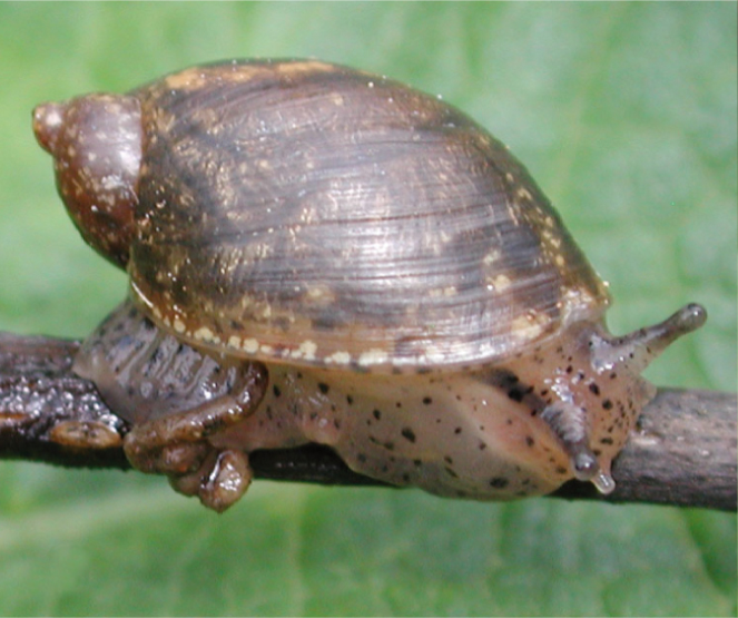 Photo of Succinea sp. from Dominica.